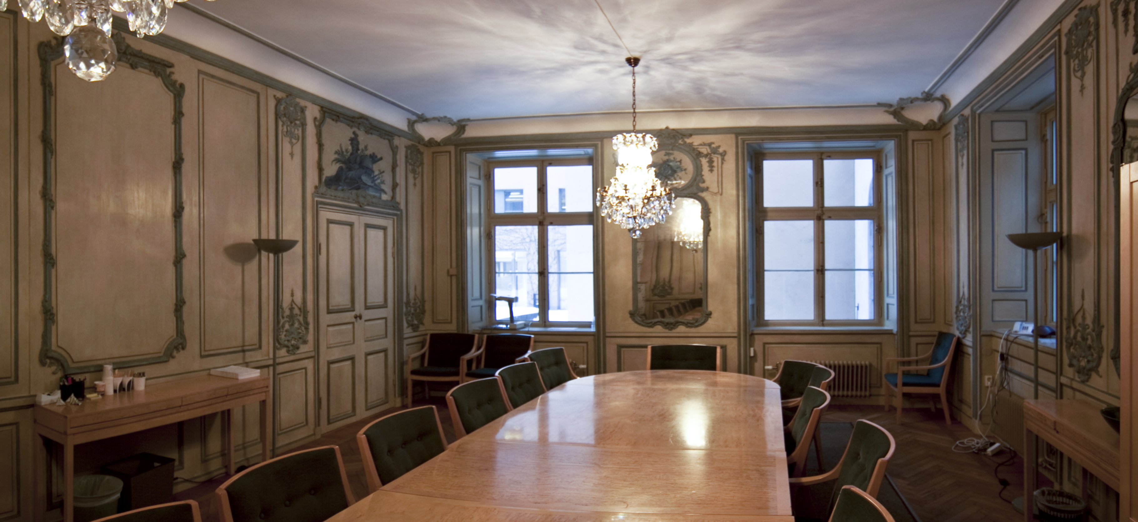 Adelkratz palace, Stockholm, Sweden: 18th century room .